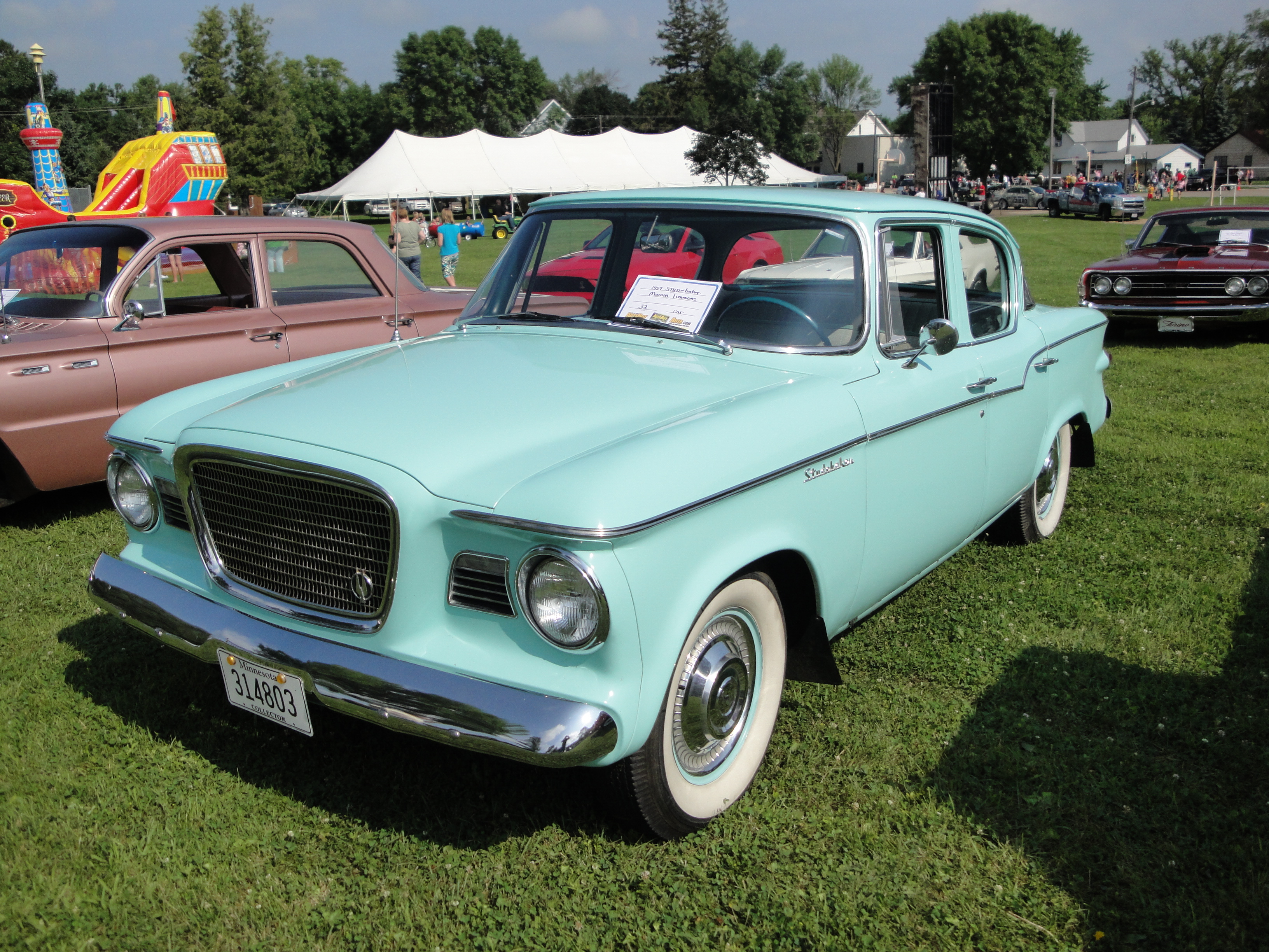 Town & Country Days Kerkoven, Minnesota